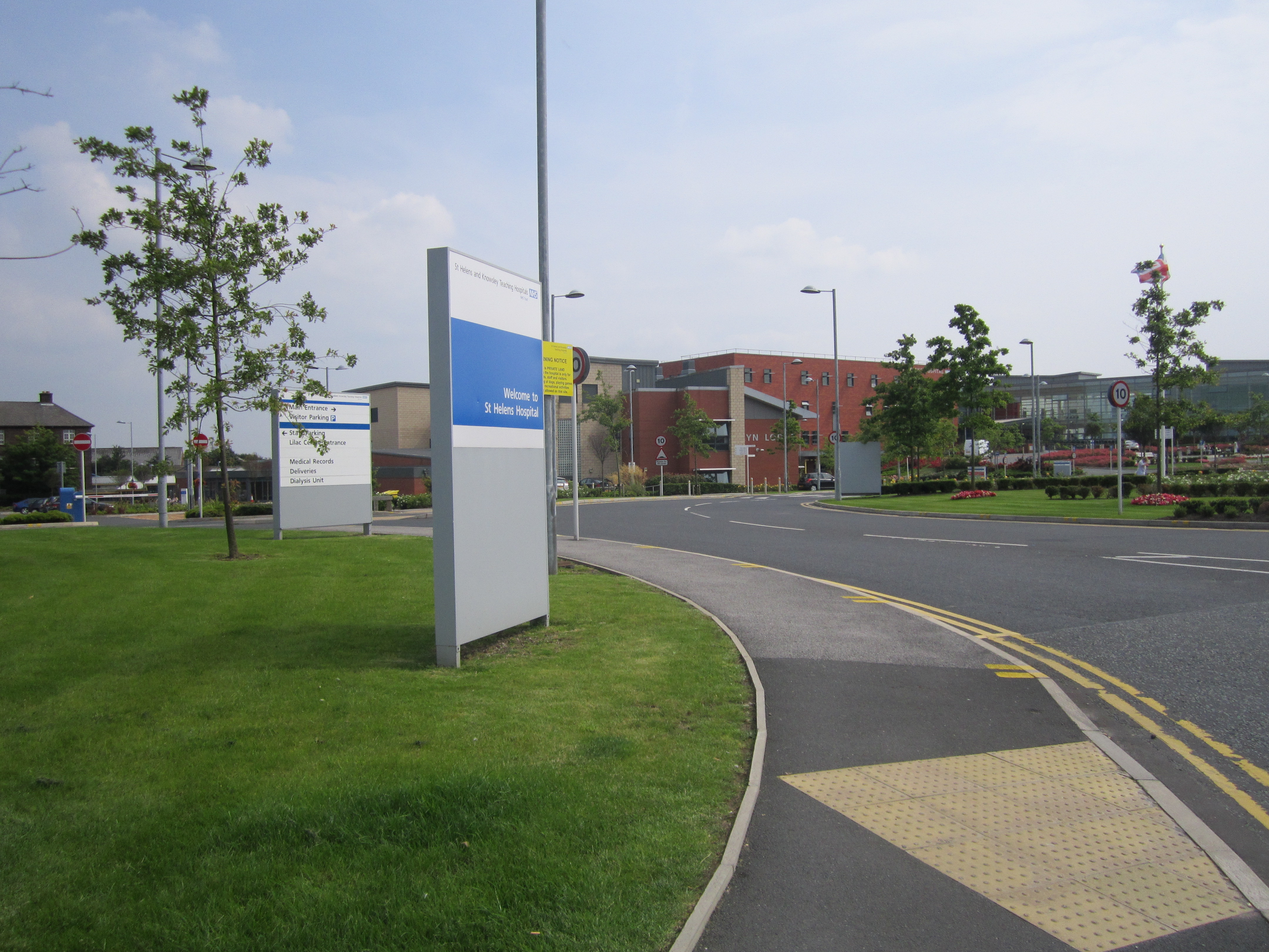 Photo taken at St Helens, Merseyside, England.